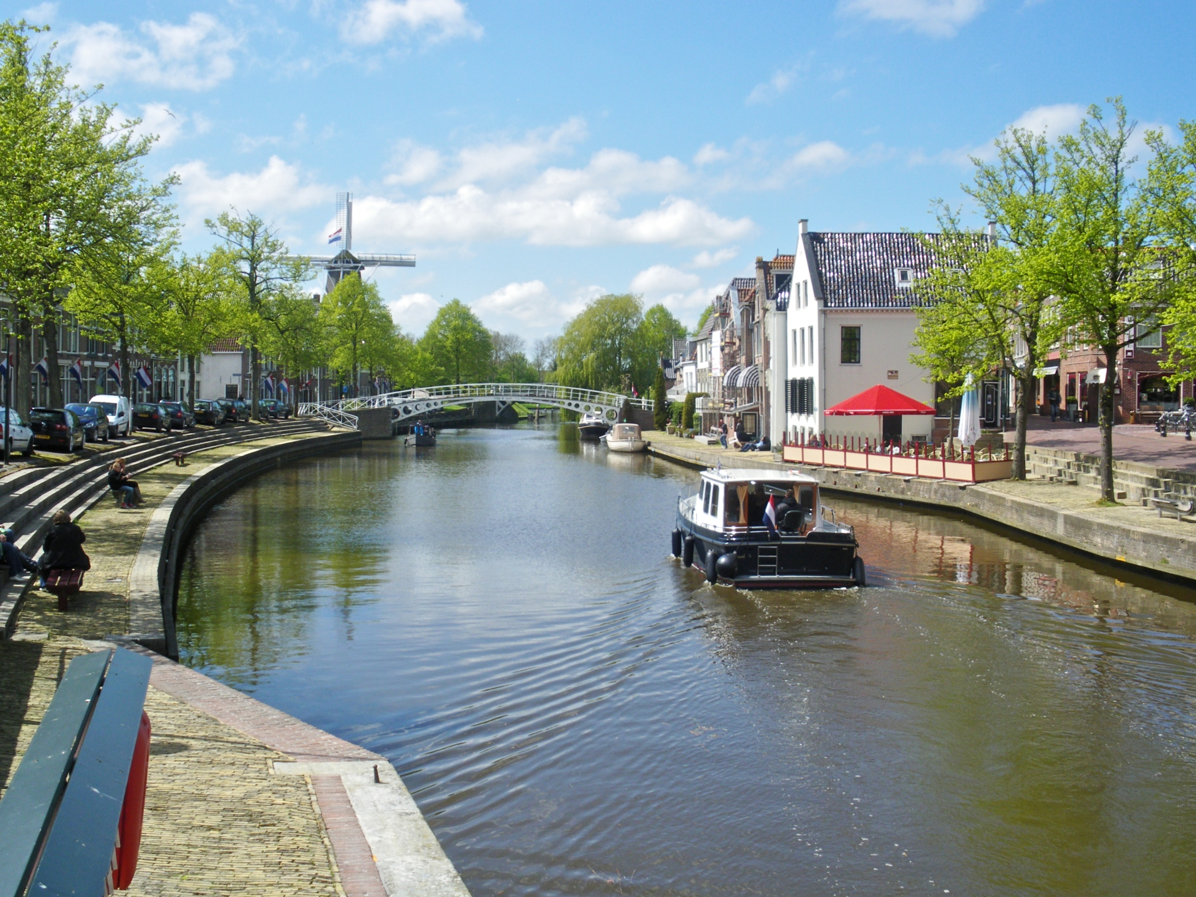 Het Kleindiep as seen from De Zijl in Dokkum.